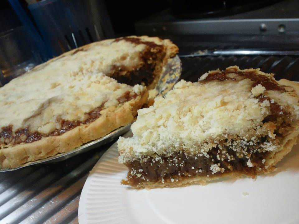 Pennsylvania Dutch style, wet-bottom shoofly pie. Pie made by my dad, picture by me.